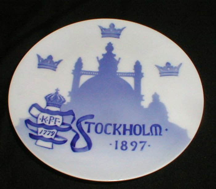 Arnold Krog (Danish, 1856-1931): plate "Art and industry exhibition in Stockholm" showing a crowned vase with the letters K.P.F. (Kongelige Porcelains Fabrik) and the year 1779, the inscription STOCKHOLM 1897 and a silhouette of the great exhibition hall under three crowns. Kiswahili: photos, sweden, konungens ankomst till mässan 1897